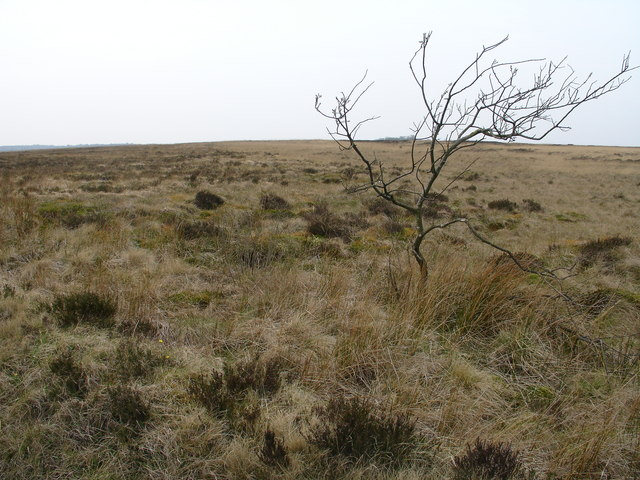 Longriggend Desolation With virtually nothing to see on the landscape, this former site of opencast workings and a light railway tell you what should be here, however scrubland and a railway line that needed no cutting or embankment simply blends in with the vista. Interestingly - although unseen in the photograph, the path shown in the OS map was paved with bricks for its entire length across the scrubland, leading one to believe it was built specifically for workers to reach the opencast works adjacent (and now disused), and to cope with a high volume of foot traffic.